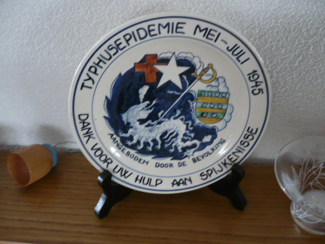 Platelet plate that was handed out to doctors and nurses who had cared for patients during the typhoid epidemic in Spijkenisse (April-July 1945). The text reads: TYPHUSEPIDEMIA MAY-JULY 1945 / THANK YOU FOR HELPING SPIJKISSISSE / OFFERED BY THE POPULATION. The picture shows a Greek cross, a star, a dragon with a sword stabbed in it and the coat of arms of Spijkenisse, all against a dark blue background and clouds. About the copyrights of the plate: it was designed and manufactured in 1945, so more than 70 years ago, and it does not contain a designer's name. This makes it free of rights in the Netherlands (art. 38 Copyright Act of the Netherlands).